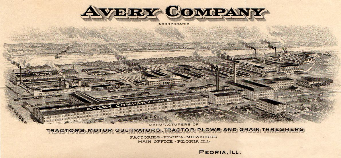 Letterhead from 1922 depicting bird's eye view of Avery Company, Peoria, Illinois.